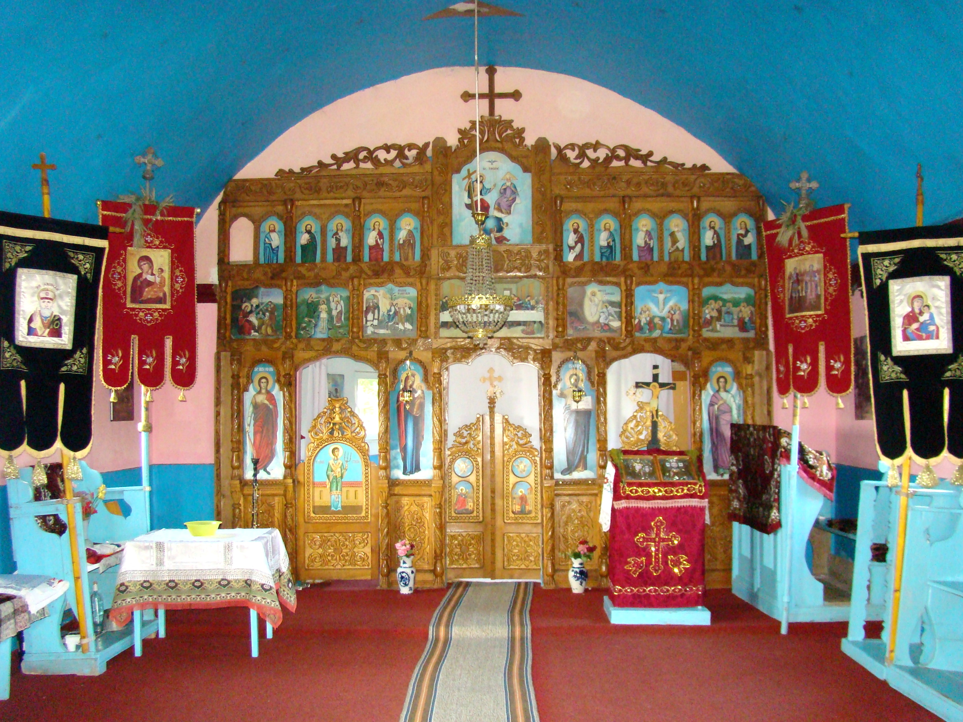 Wooden church in Petreștii de Mijloc, Cluj county, Romania